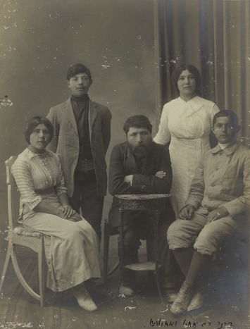 Joseph Hayyim Brenner with his Sisters and Brothers, 1913